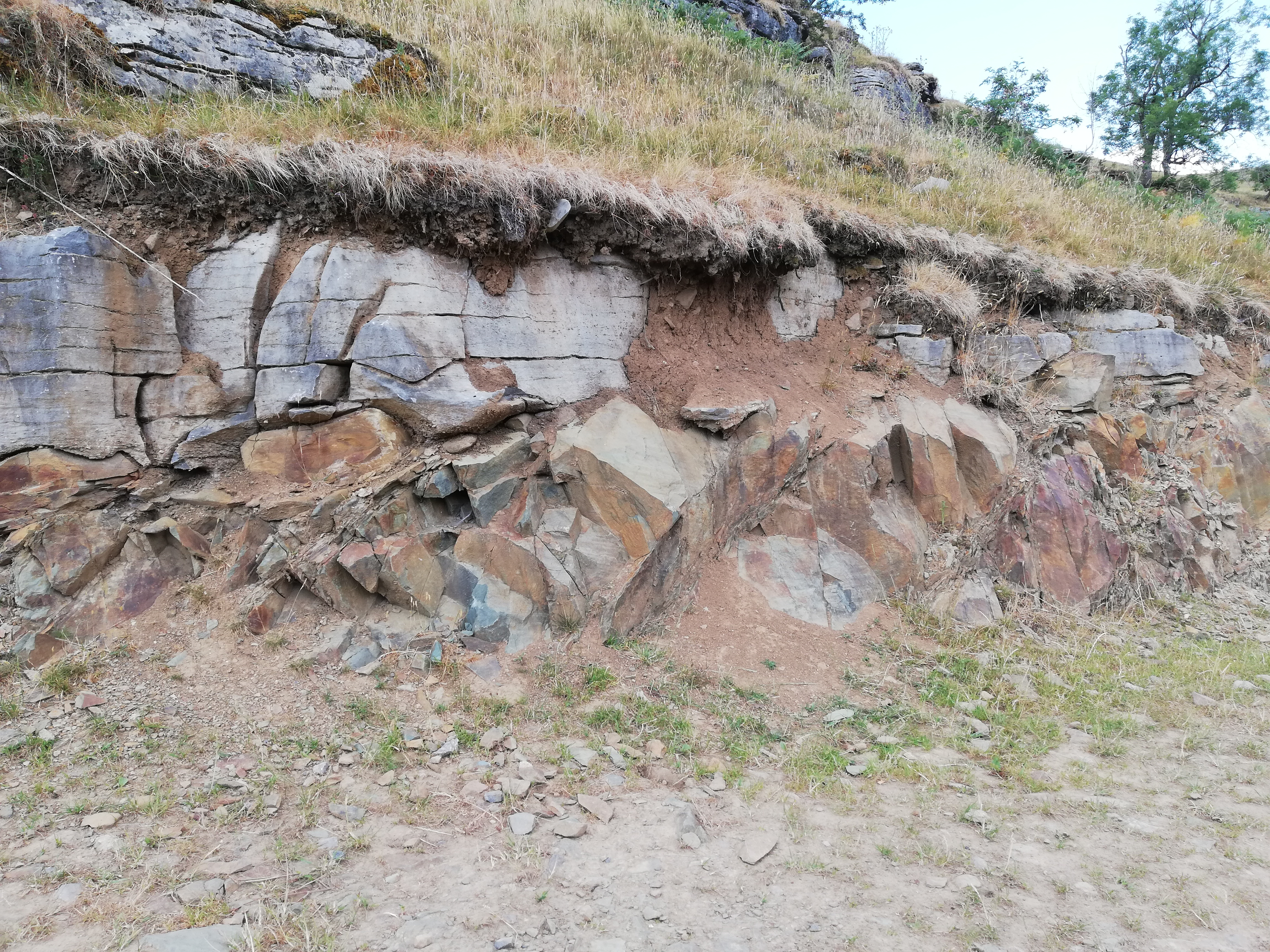 Angular unconformity near the River Twiss above Ingleton, North Yorkshire